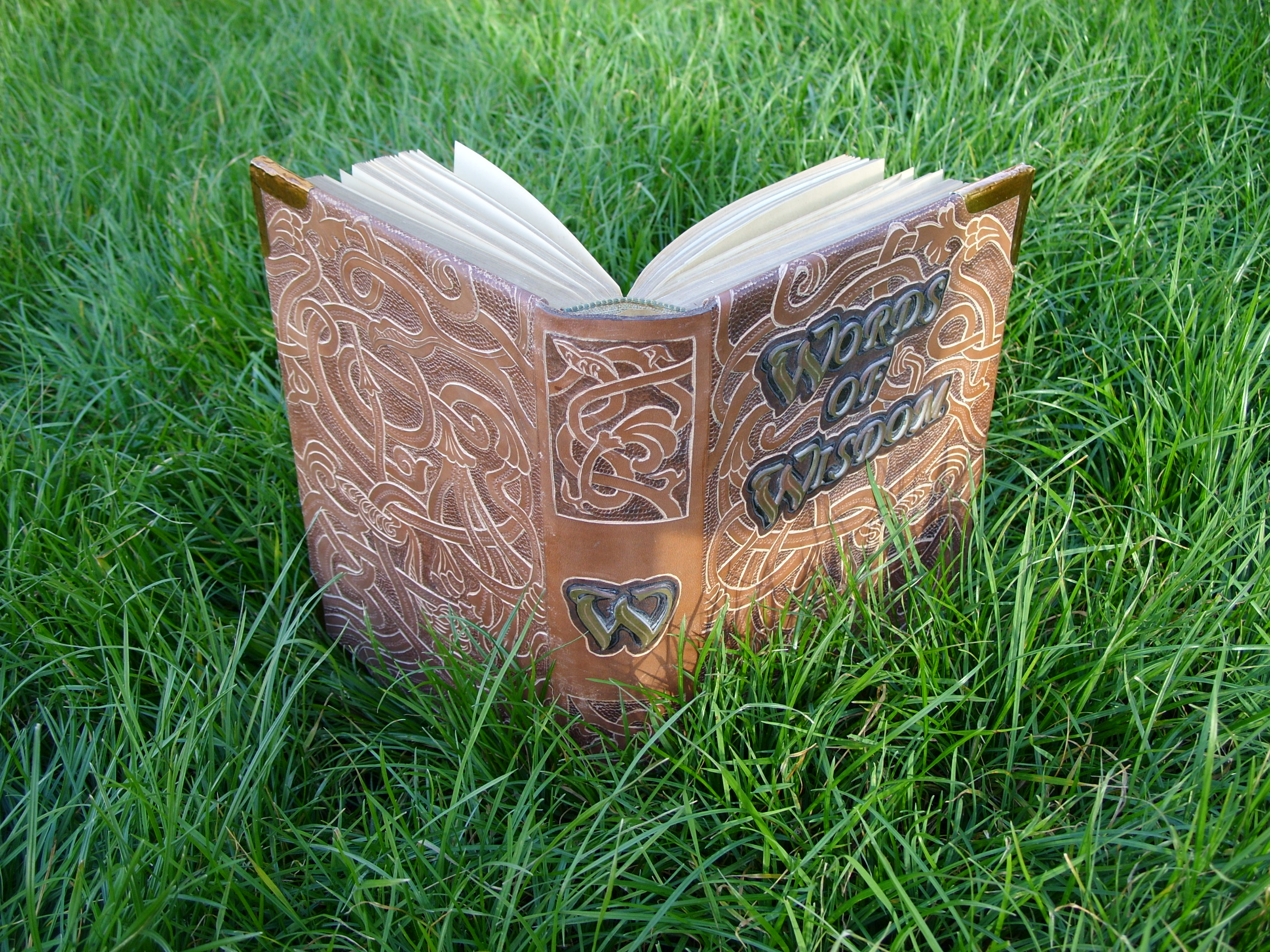 This is Wiseman's book, entitled Words Of Wisdom